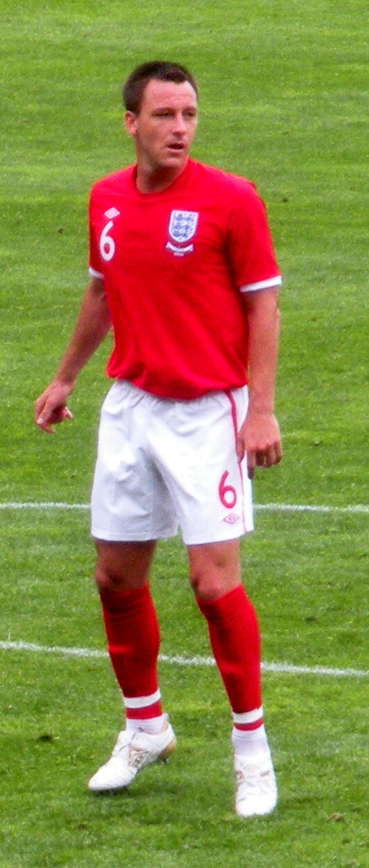 John Terry, friendly between Japan and England in Graz (Austria) on 30 May 2010